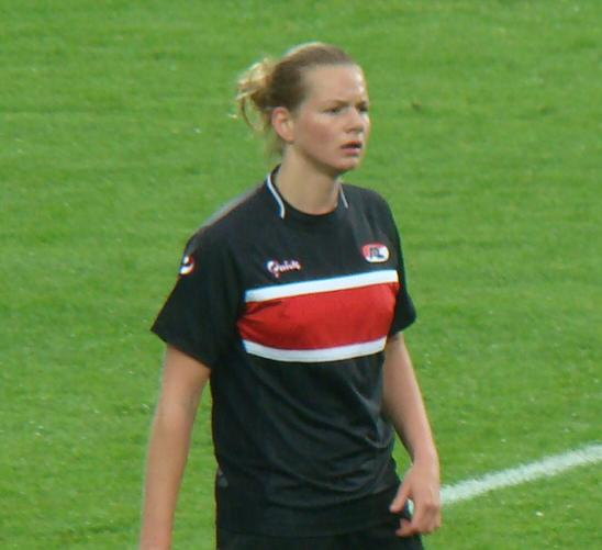 AZ player Kim Dolstra